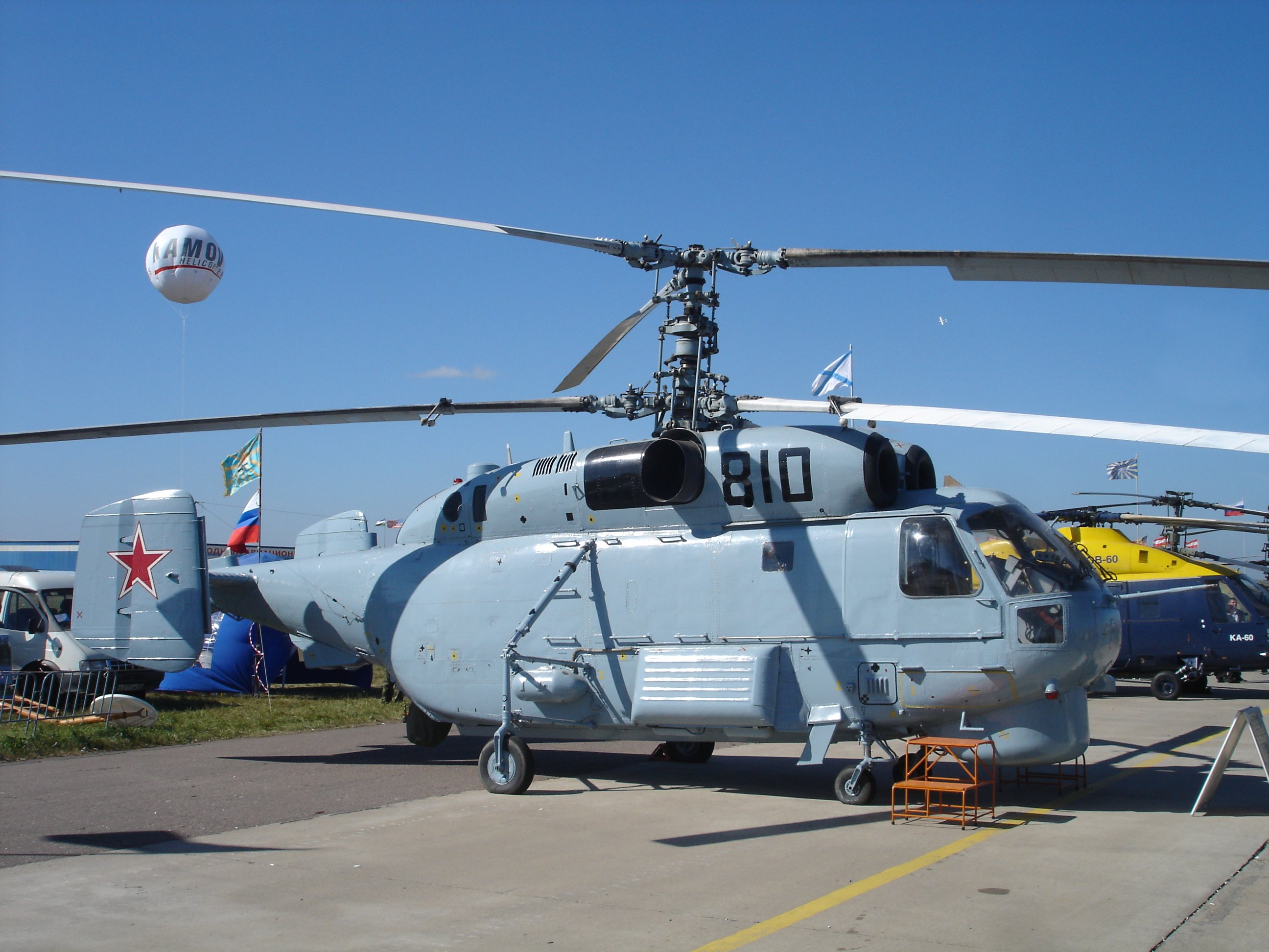 Kamov Ka-27/28.